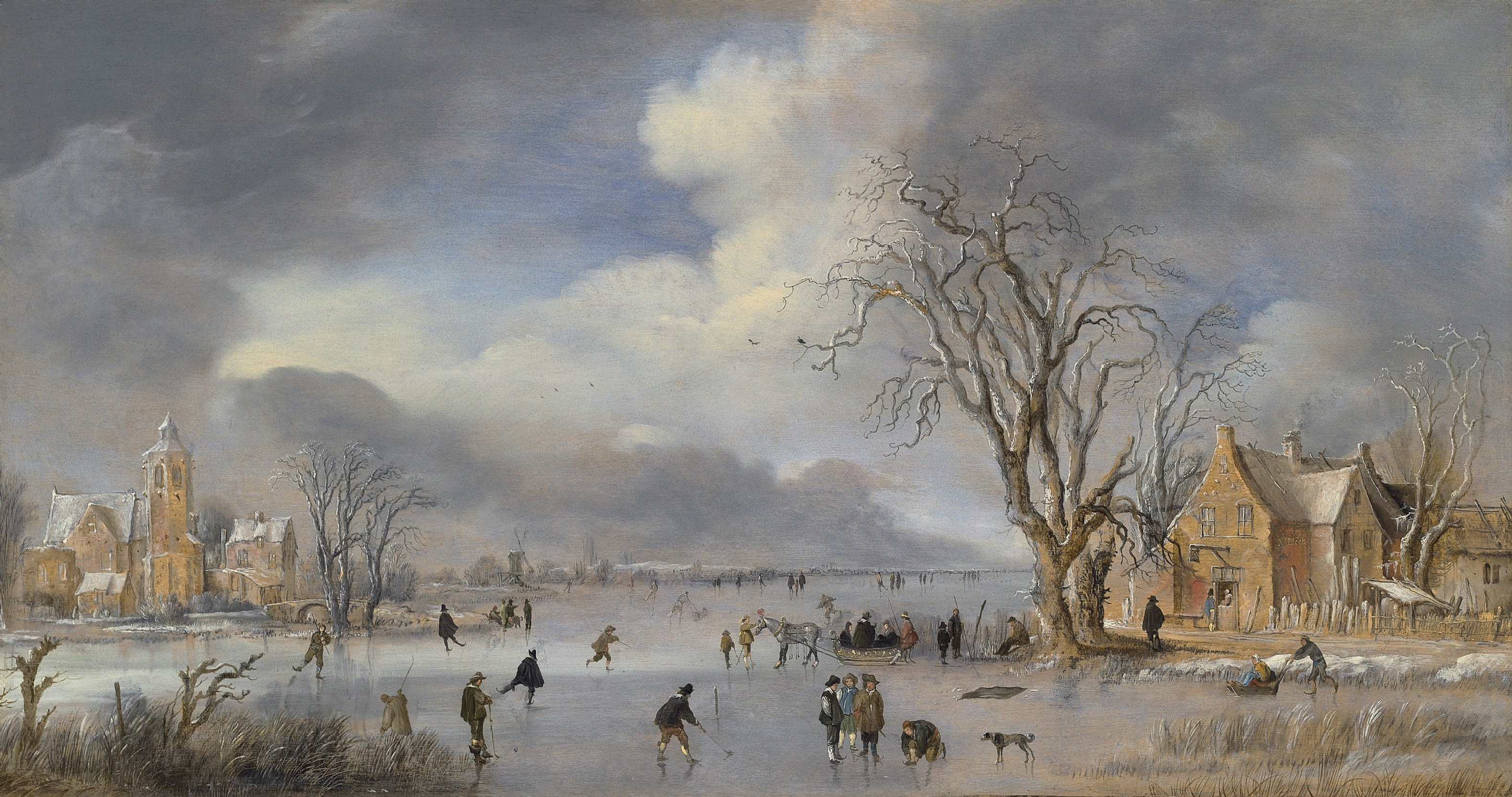 A winter landscape with skaters and kolf players on a frozen river